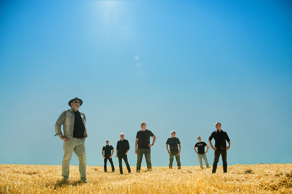 Virus-D 2019